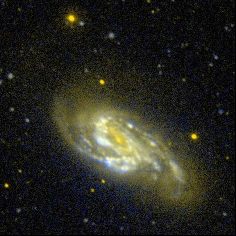 UV-Image of Messier 66made by GALEX